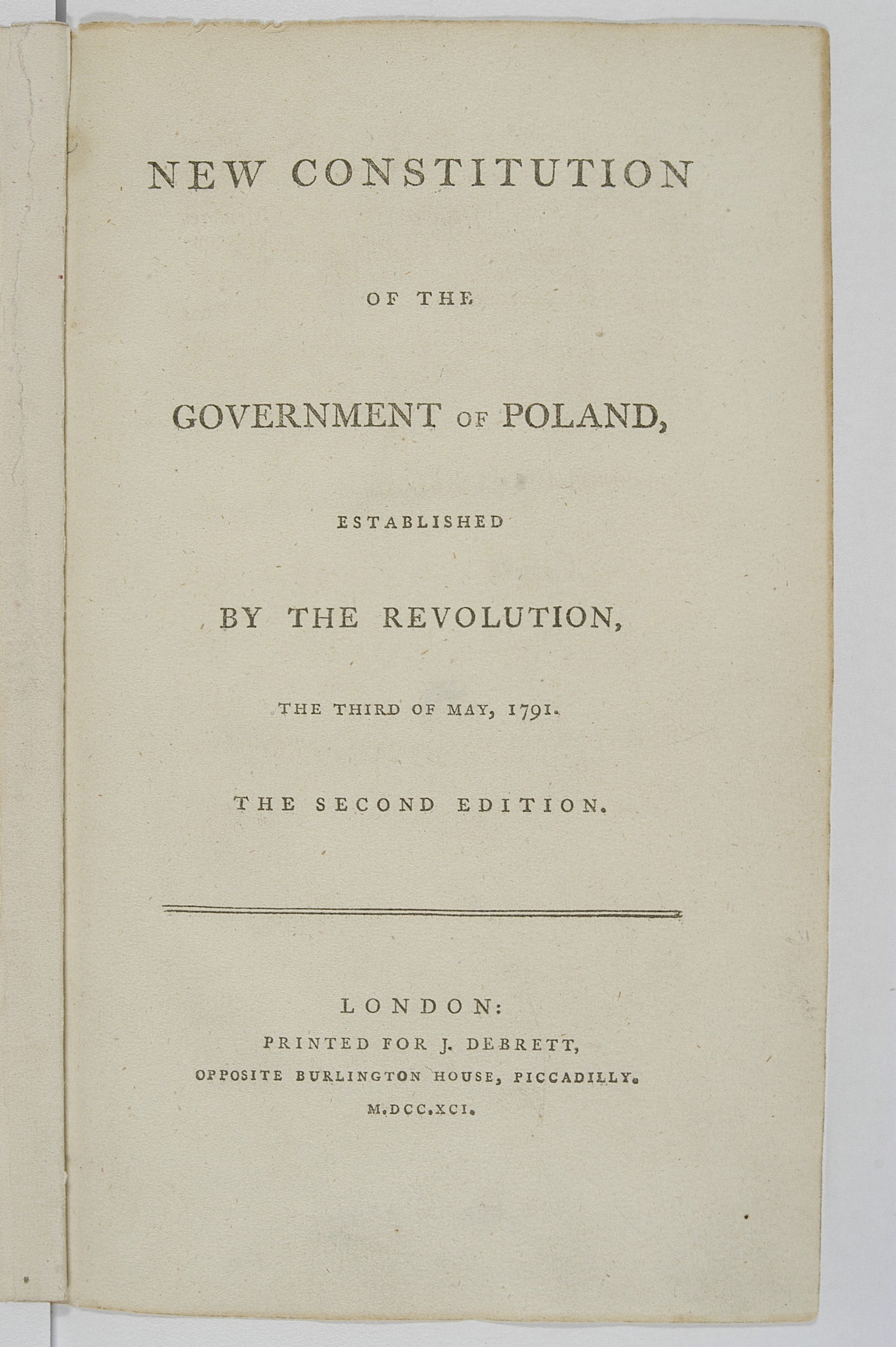 Polish-Lithuanian Commonwealth's Constitution of the 3rd May 1791